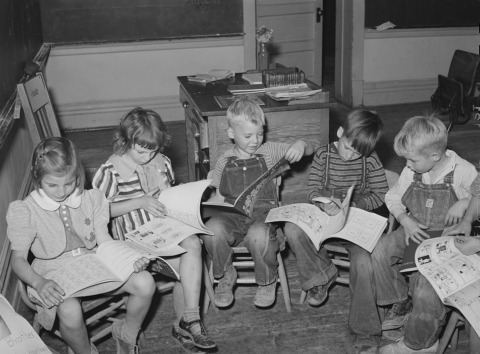 Children looking at picture books at school, Santa Clara, Utah. Credit: Library of Congress, Prints & Photographs Division, FSA-OWI Collection, [reproduction number, e.g., LC-USF35-1326]